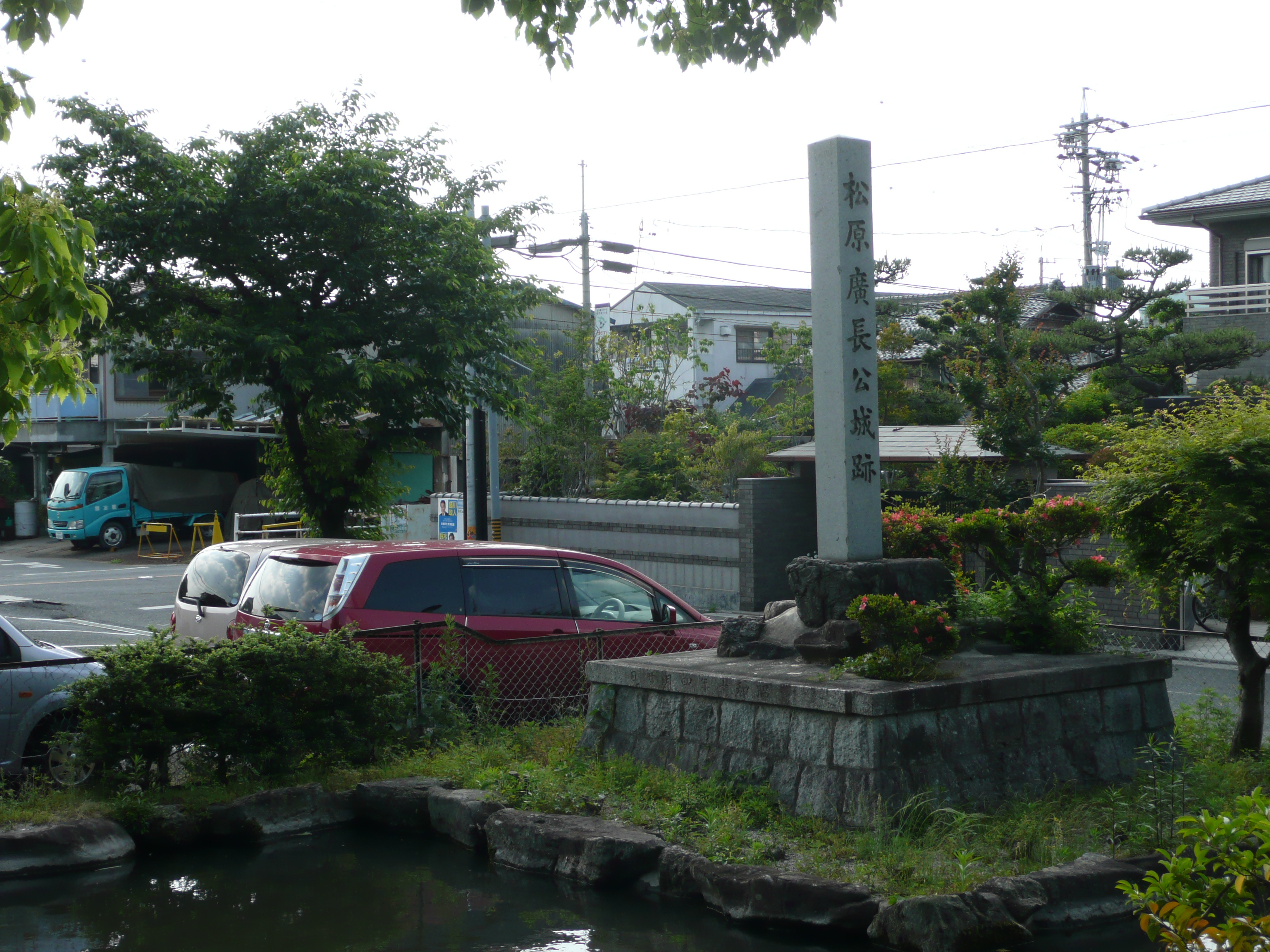 今村城の石碑